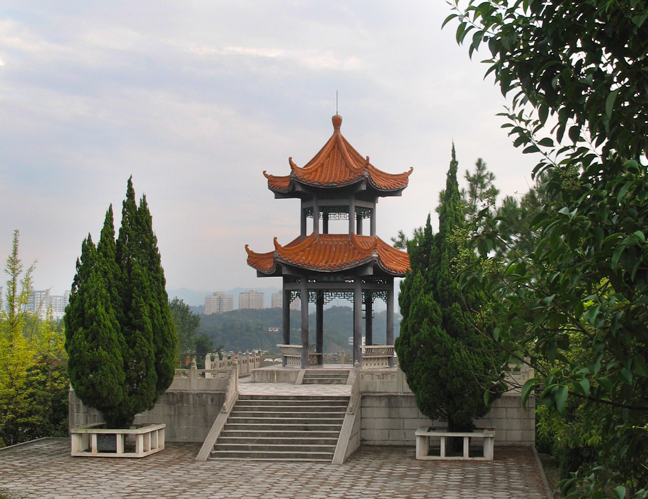 Fengyun Pavilion, Dongfeng High School, Shiyan, Hubei, China.